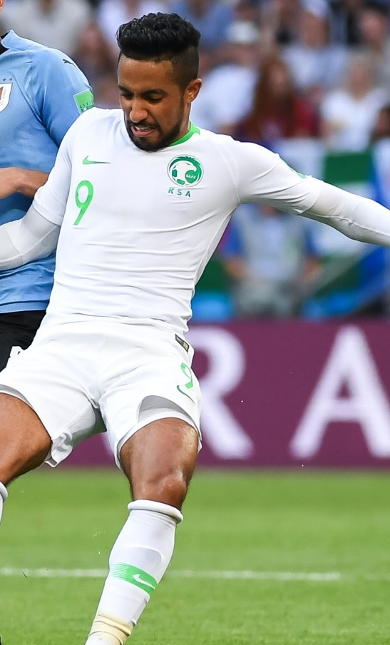 Hattan Bahebri (R) playing for Saudi Arabia in a game against Uruguay at the 2018 FIFA World Cup. Rodrigo Bentancur is on the left.